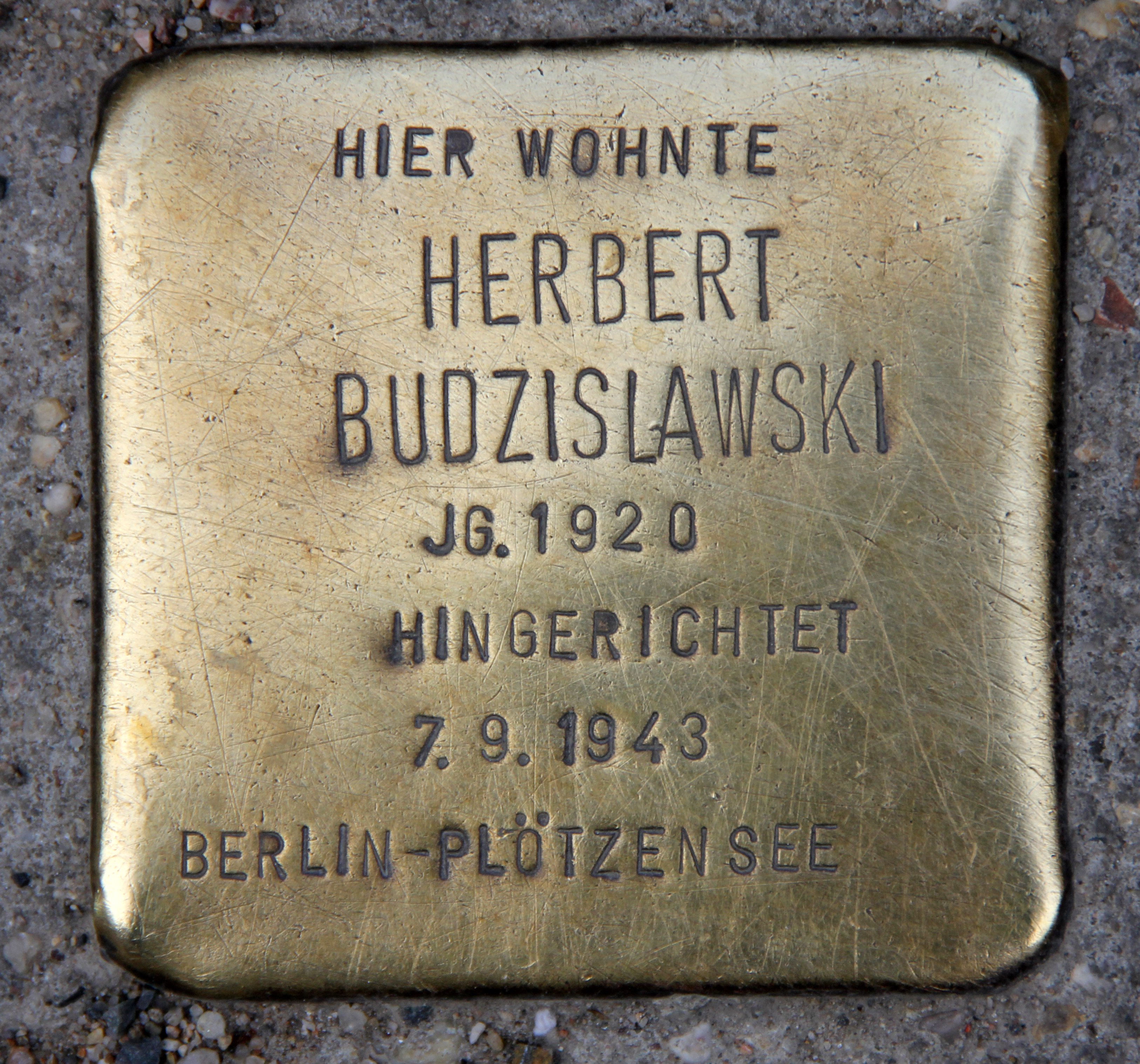 "Stolperstein" (stumbling block), Herbert Budzislawski, Große Hamburger Straße 16, Berlin-Mitte, Germany